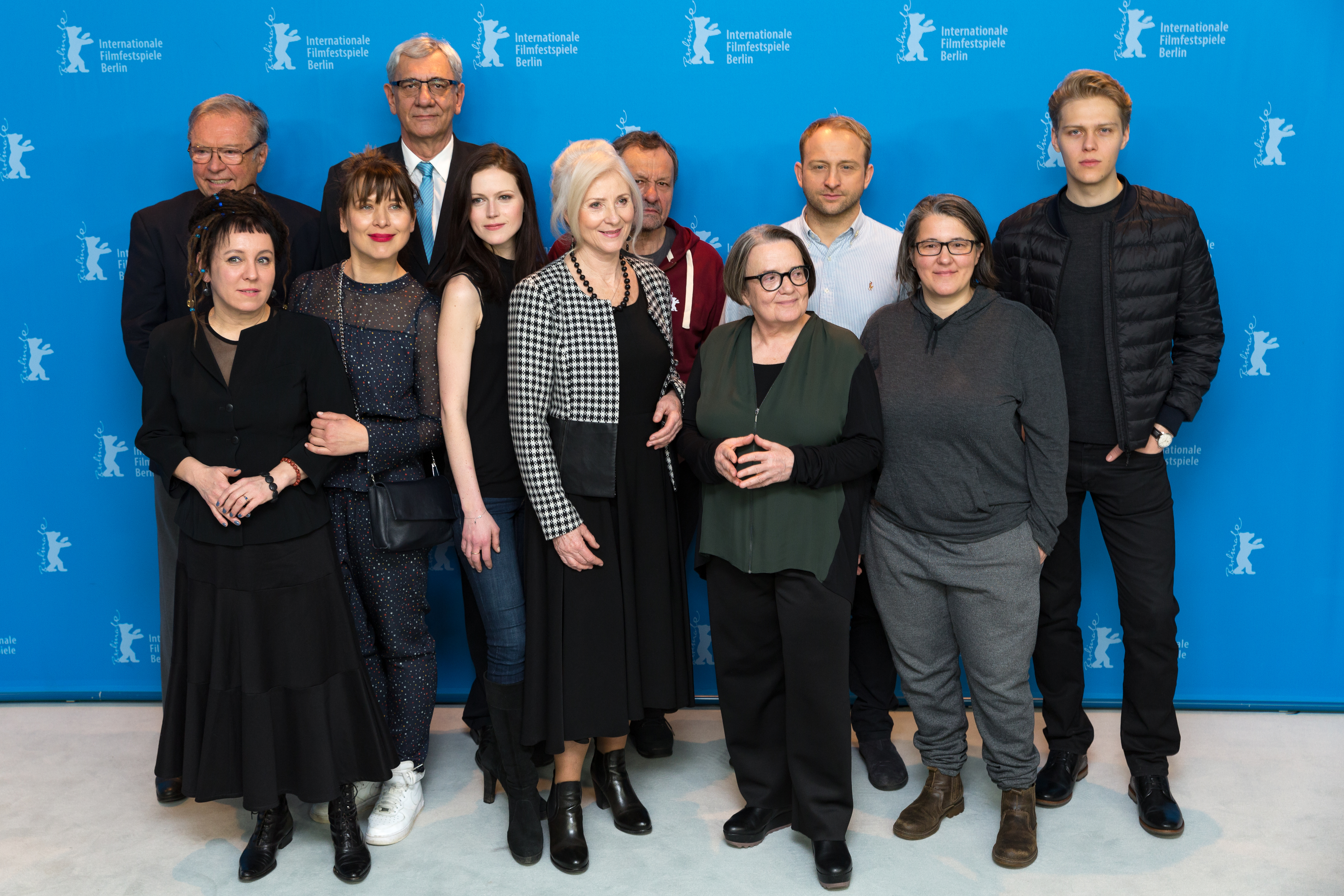 The film team at the presentation of the polish movie Spoor at the Berlinale 2017